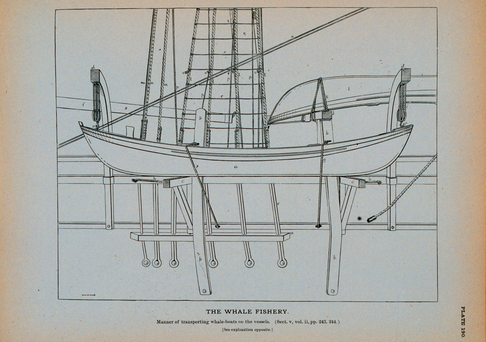 Drawing of whaleboat on davits and supports. Another boat behind, stored upside doen on elevated support. NOAA caption reads: Starboard quarter of a whale-ship Showing the manner of transporting the captain's boat and the spare boats. Original caption on illustration reads: The Whale Fishery Method of transporting whale boats on the vessels.